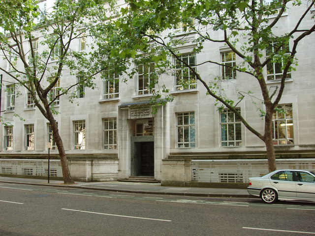 The London School of Hygiene and Tropical Medicine, Malet Street